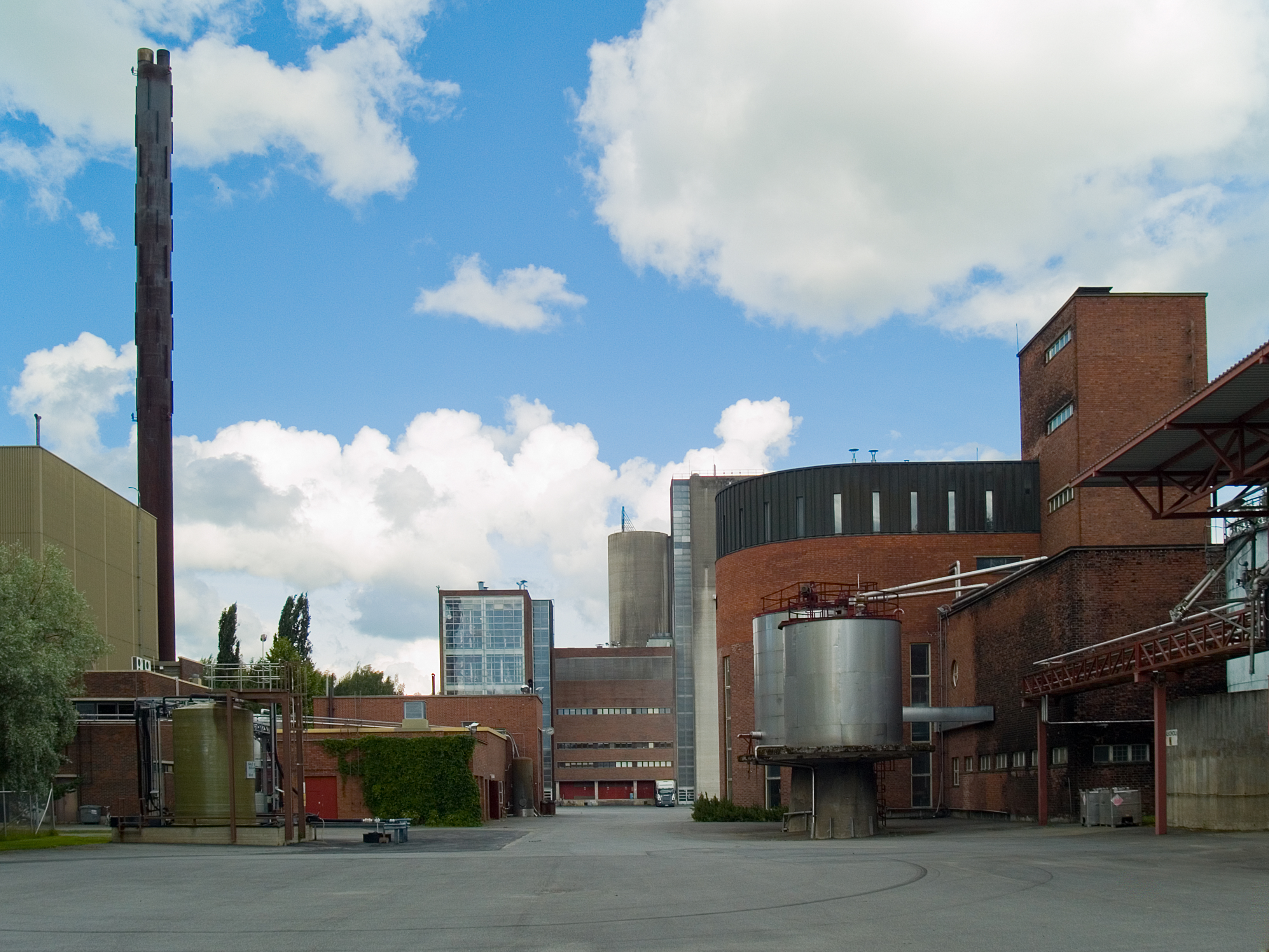 Altia ethanol distillery in Koskenkorva, Ilmajoki, Finland. In the foreground, old section built in 1939 and designed by architect Erkki Huttunen. In the background, new factories from 1970s (architect Einari Teräsvirta) and 1980s.